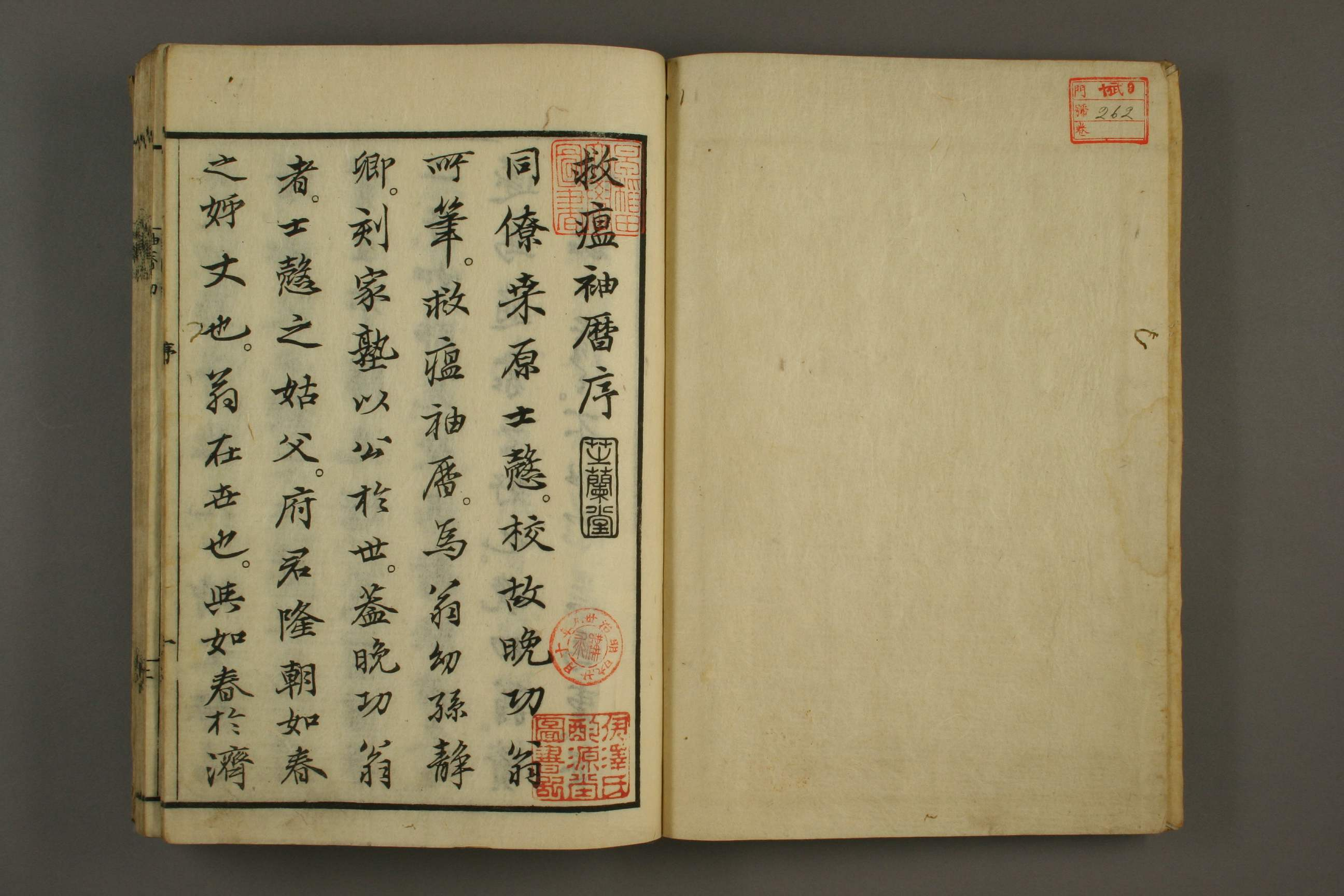 Medical book, "Kyuon Sodegoyomi"